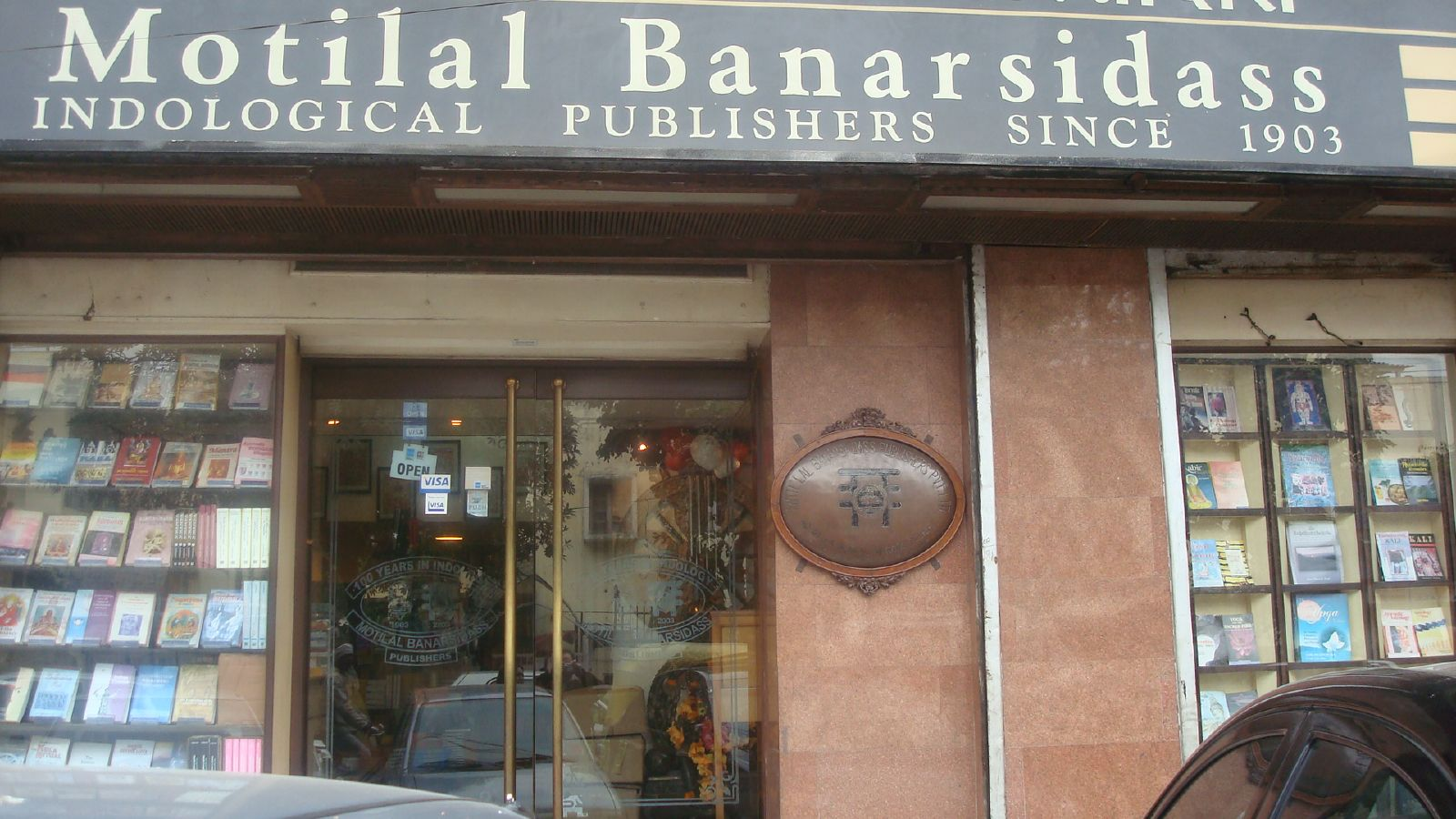 Motilal Banarsidass, a bookstore in North Delhi India